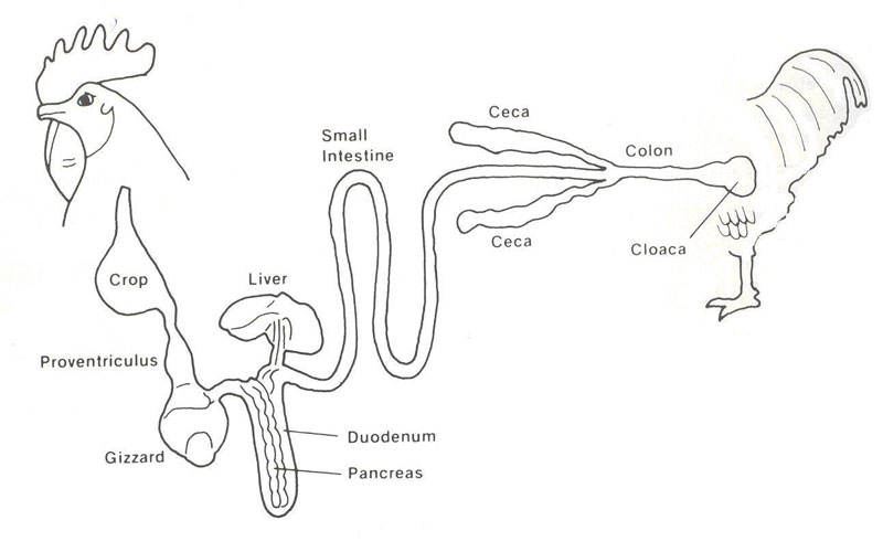 Diagram of a birds gastric system.